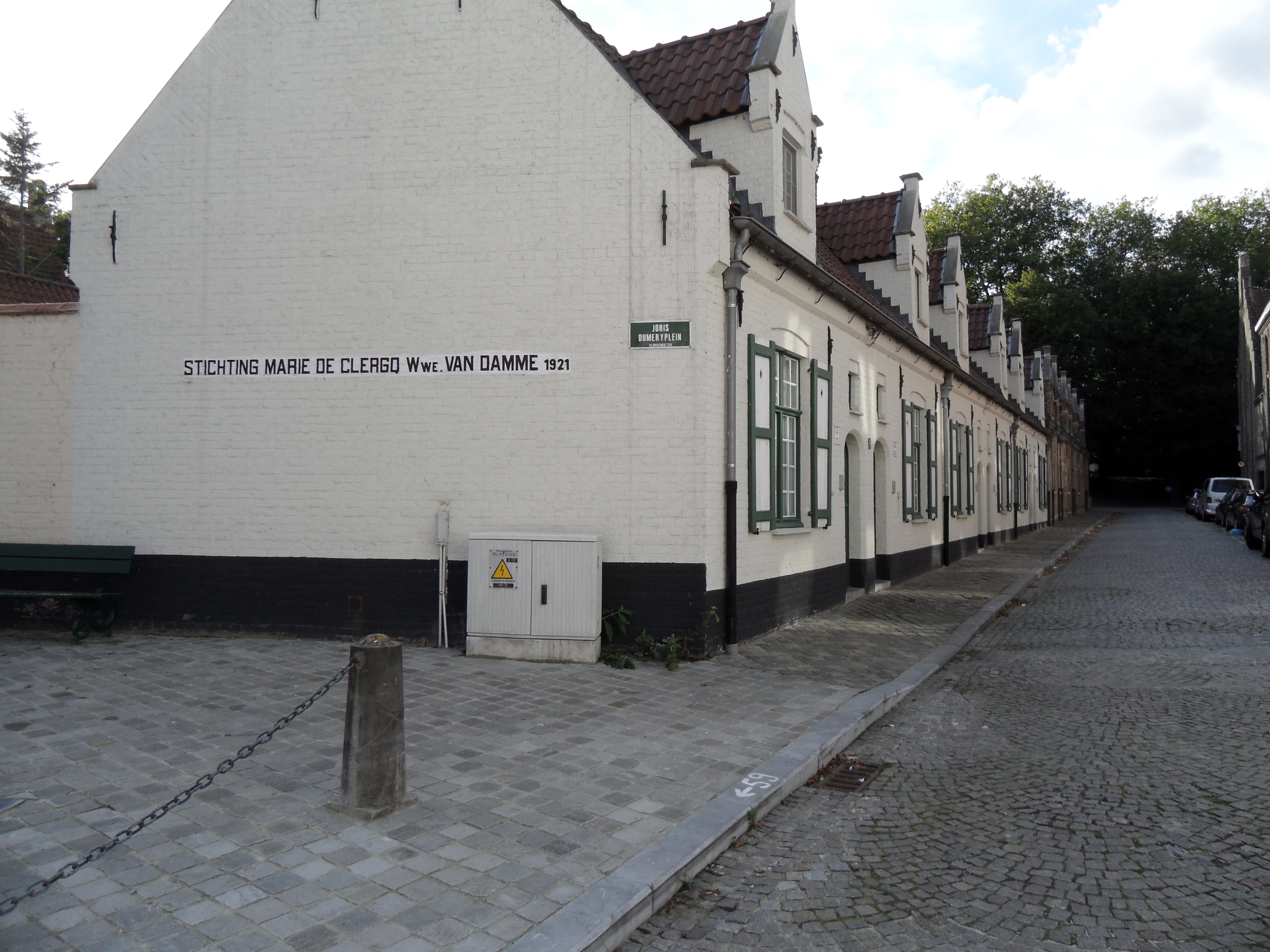 De Clercq in Bruges